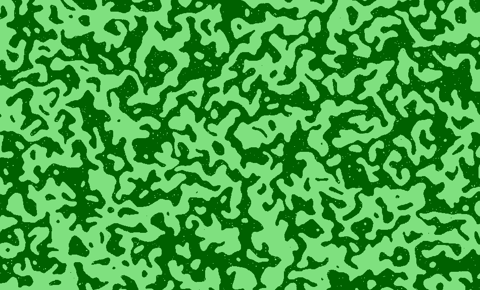 The anneal (B4678/S35678) Life-like cellular automaton, 1600 generations after starting from a random initial state, shown at a scale of 4:1 (16 cells per pixel).